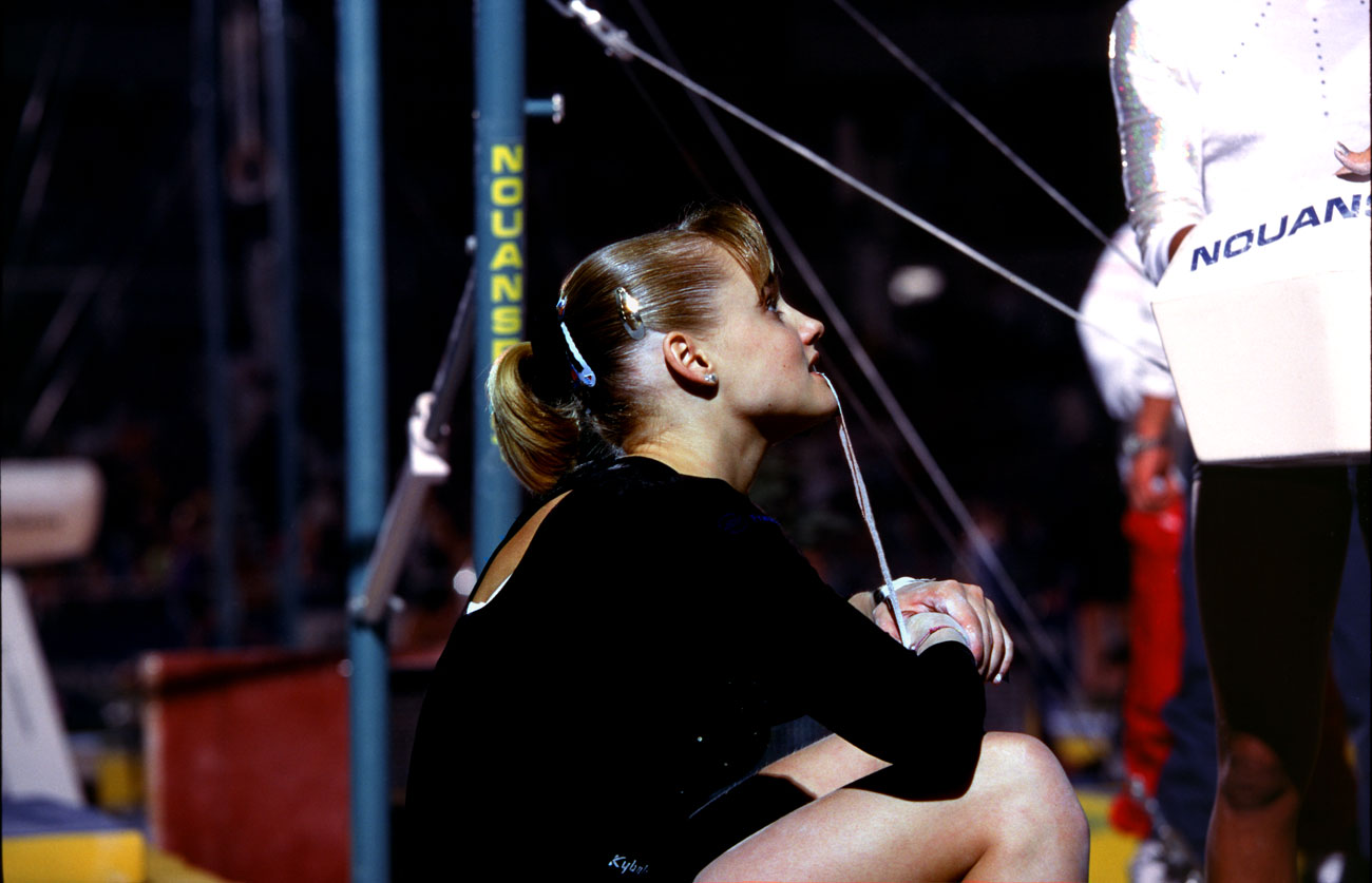 Cécile Canqueteau at the French Championships of Gymnastic - Lyon 15/11/1998